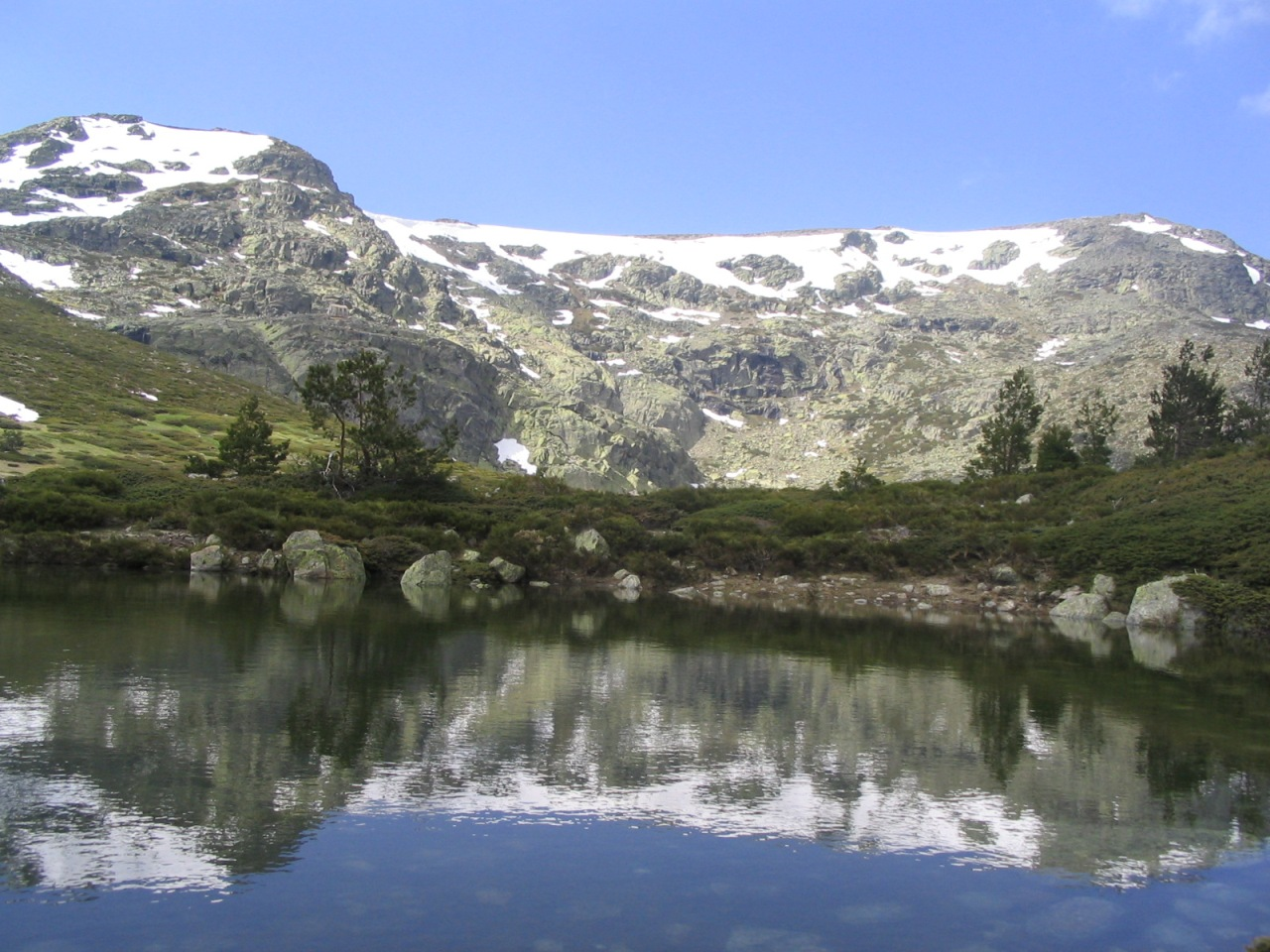 View of the circus of Peñalara and its reflection in the Small Lake (2,005 ms). As much this circus as the lake is of origin glacier, like more than twenty small lakes that sprinkle the Natural Reserve of Peñalara. This circus glacier is one of the formation more important glaciers of the Sierra de Guadarrama and the Central System (mountain range to which the Mountain range of Guadarrama belongs). In the superior end straight of the image it appears the summit of Peñalara, the highest mountain of the Mountain range of Guadarrama with his 2,430 meters of altitude. This mountain range is in the center of Spain.